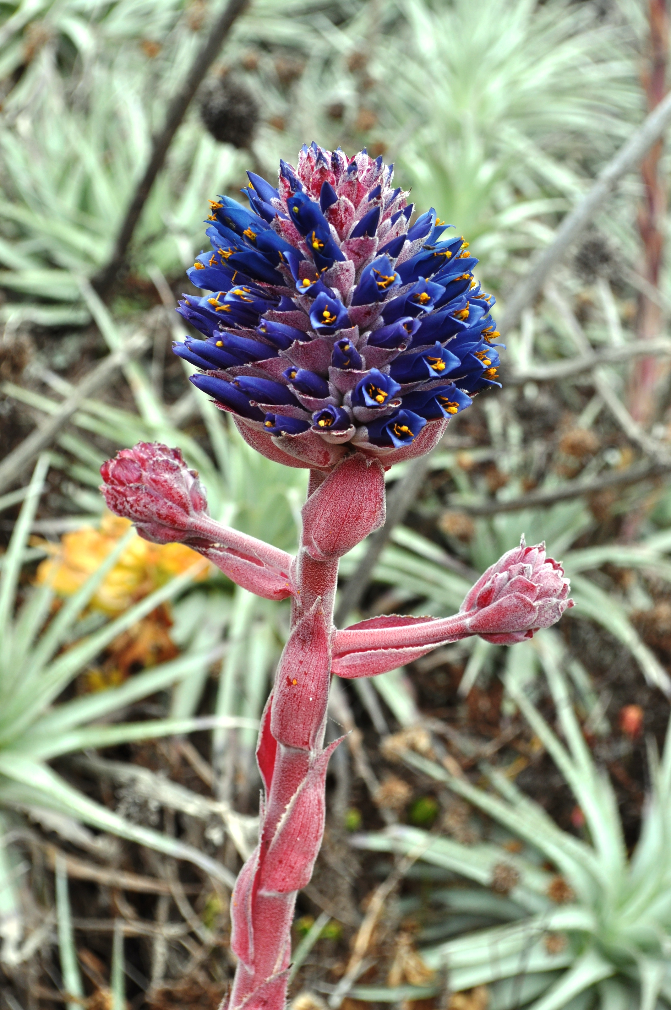 Flower of the Puya venusta, a species in the Bromeliaceae family; local name: chagual (chico). It can be found in Chile, particulary in the coastal areas of Regions Valparaíso and Coquimbo. The stalk is eatable. It is in flower yearly, from November to January.